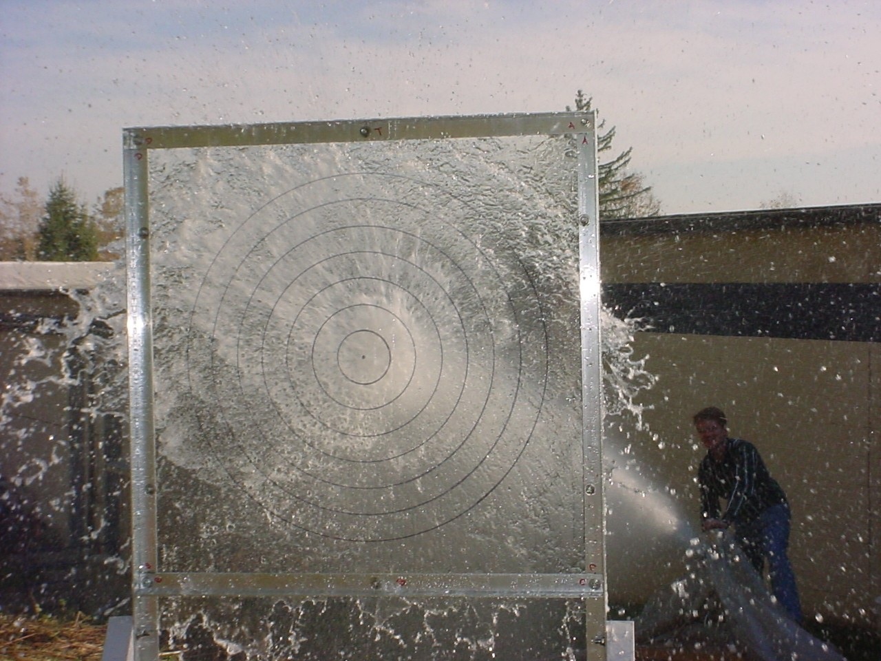 Impact, or mechanical force, demonstration of an Alfa Laval Gamajet tank cleaning device